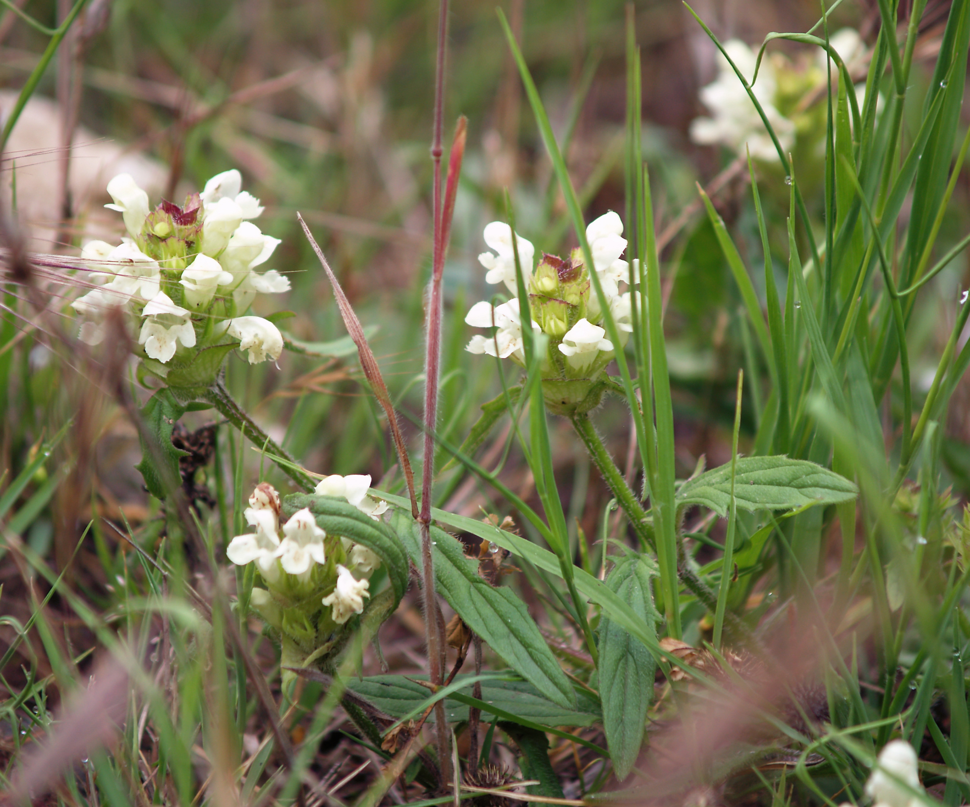 Cut-leaf Self-heal (Prunella laciniata), Thasos, Greece